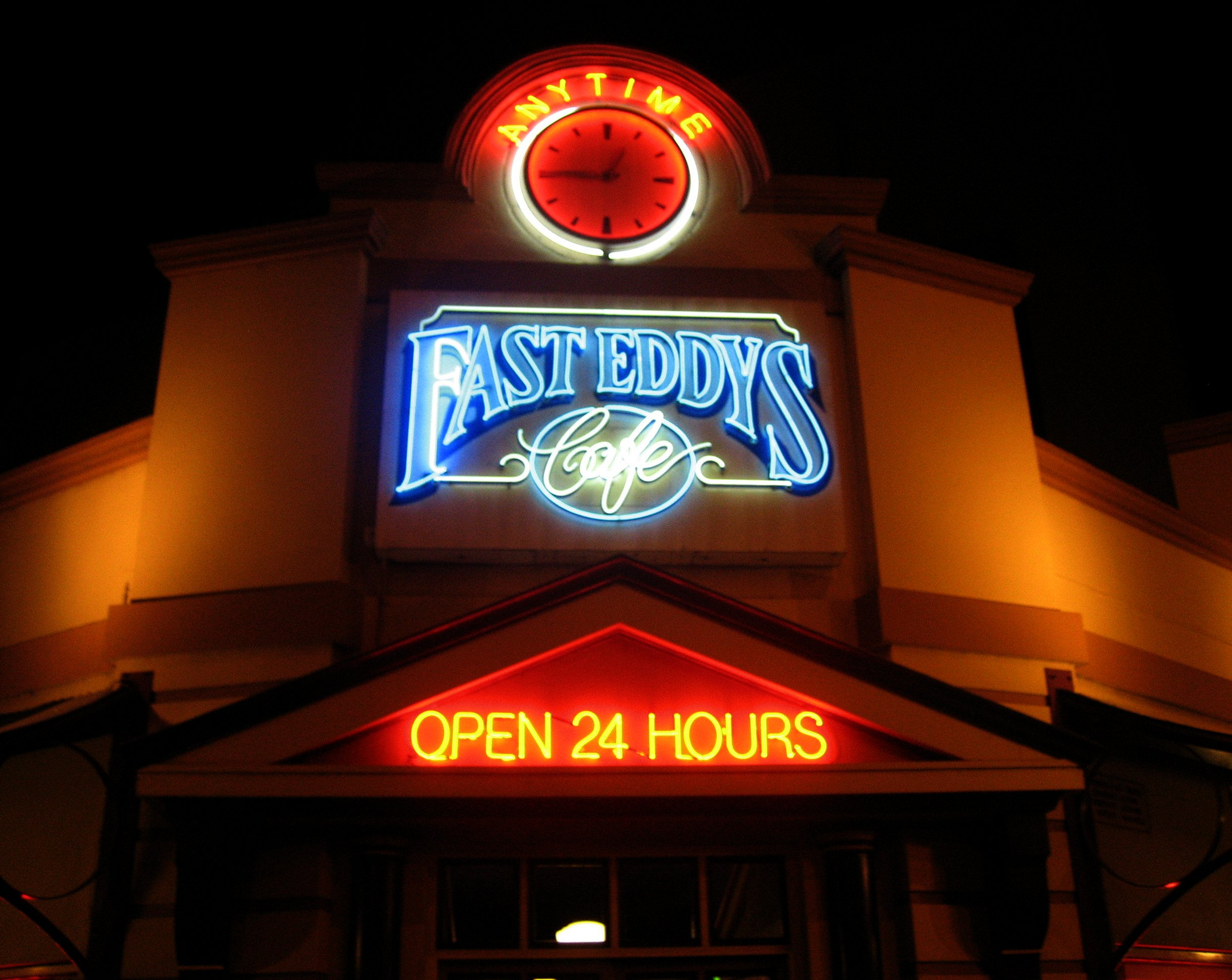 This is the sign above the entrance to Fast Eddy's restaurant in Perth